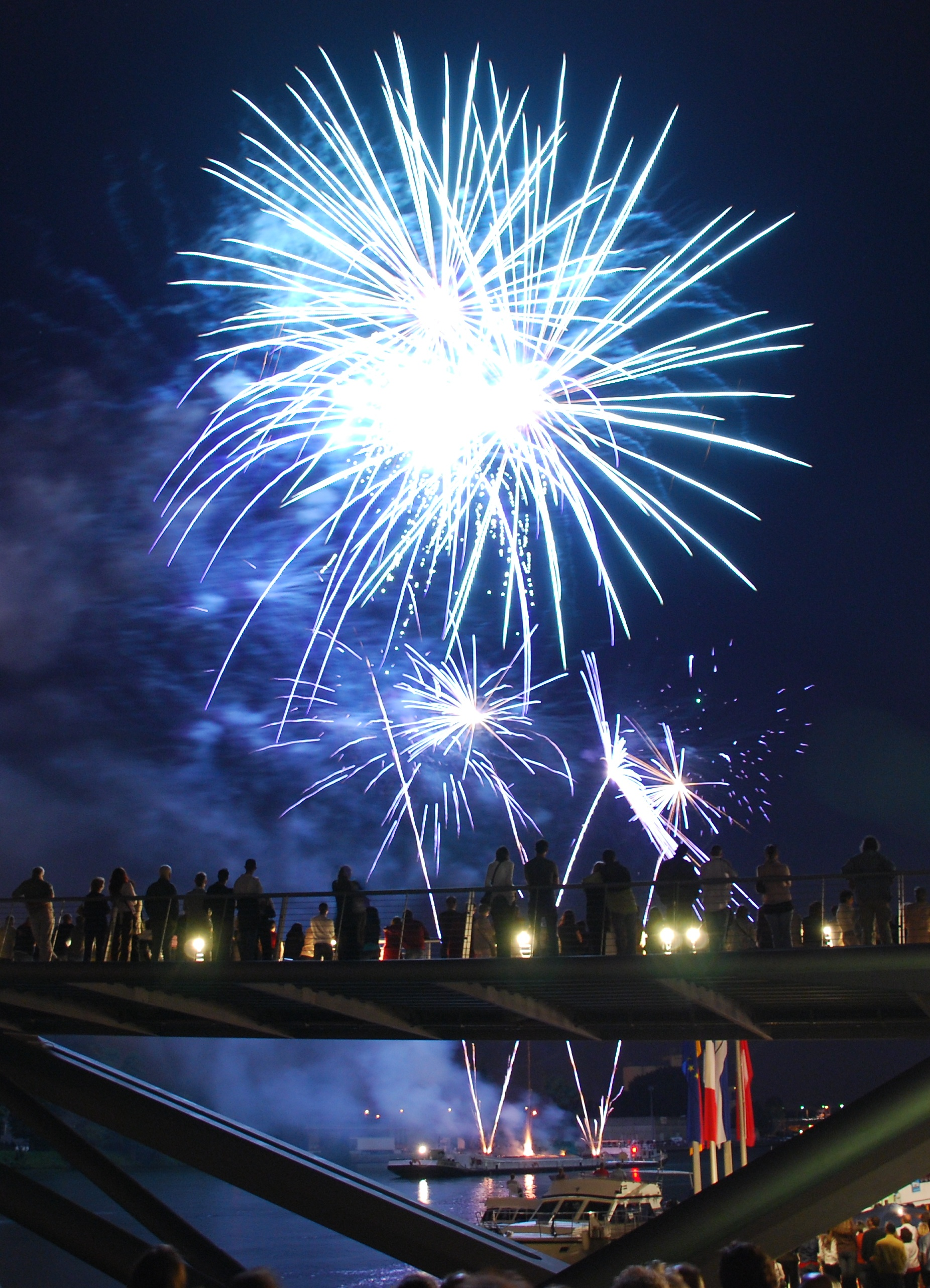 Fireworks for opening the Three Countries Bridge